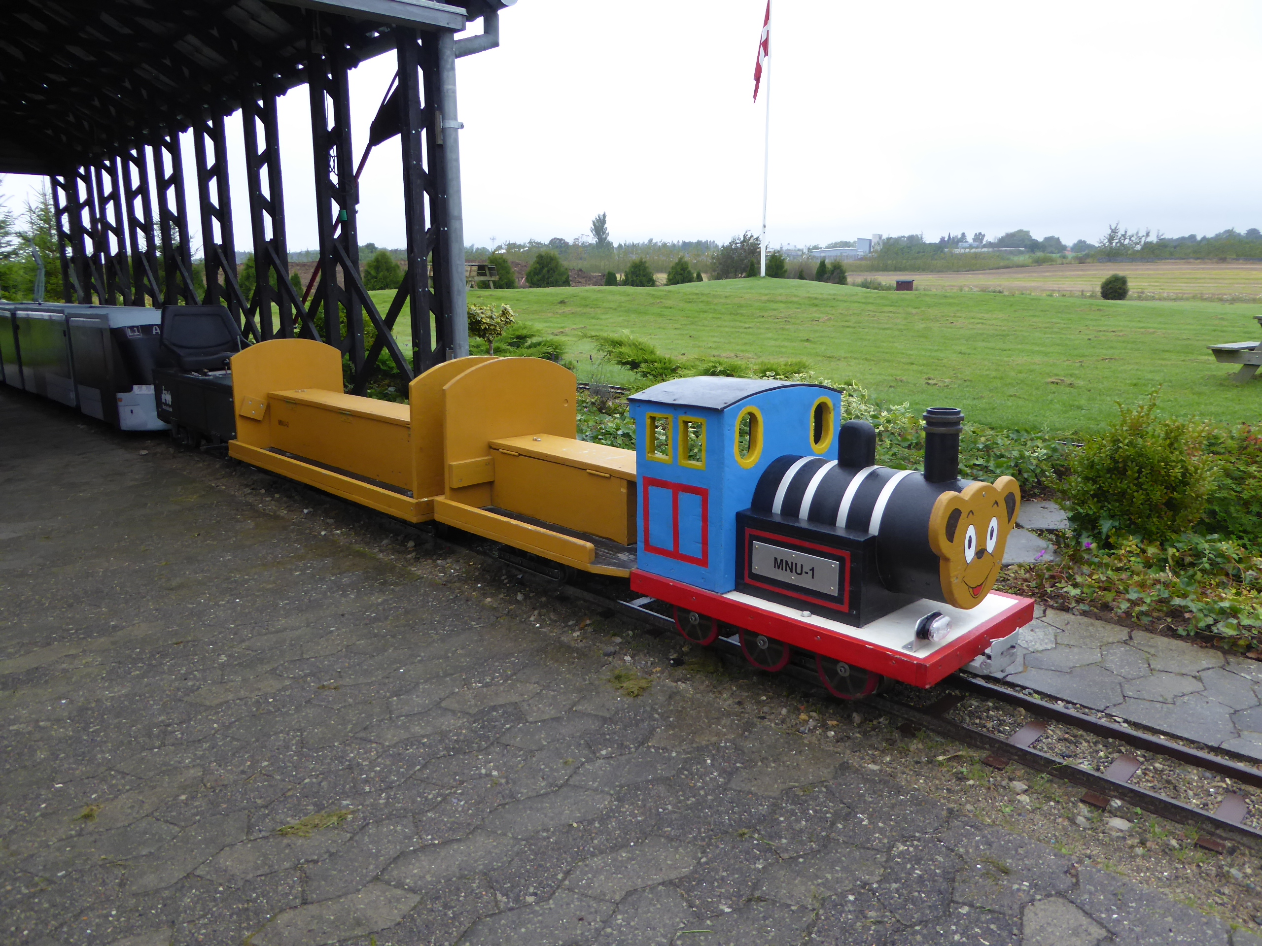 The miniature railway Modelparken Danmark north of Aarhus in Denmark.